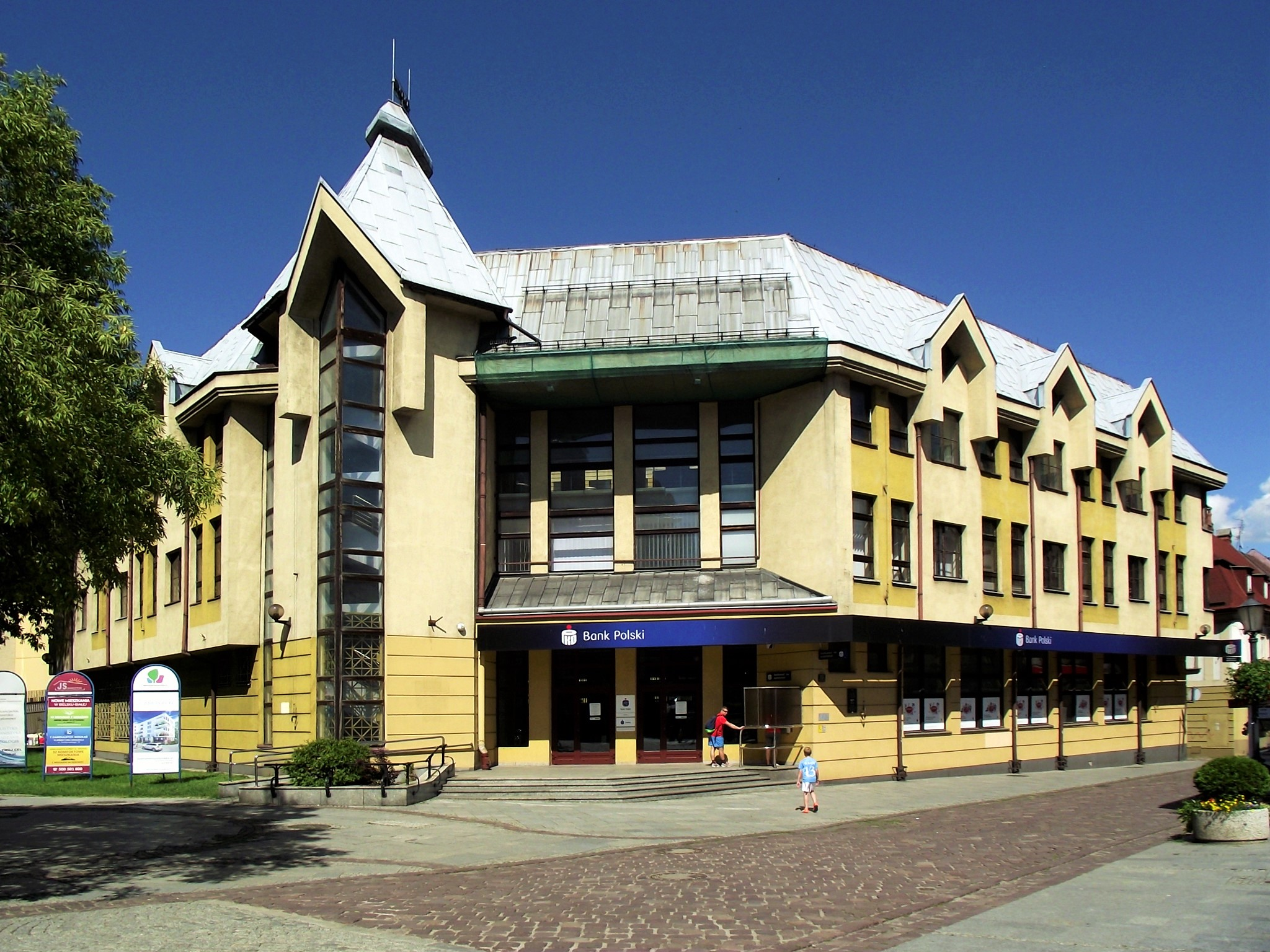 Building of PKO bank on 11th November Street in Bielsko-Biała, Poland